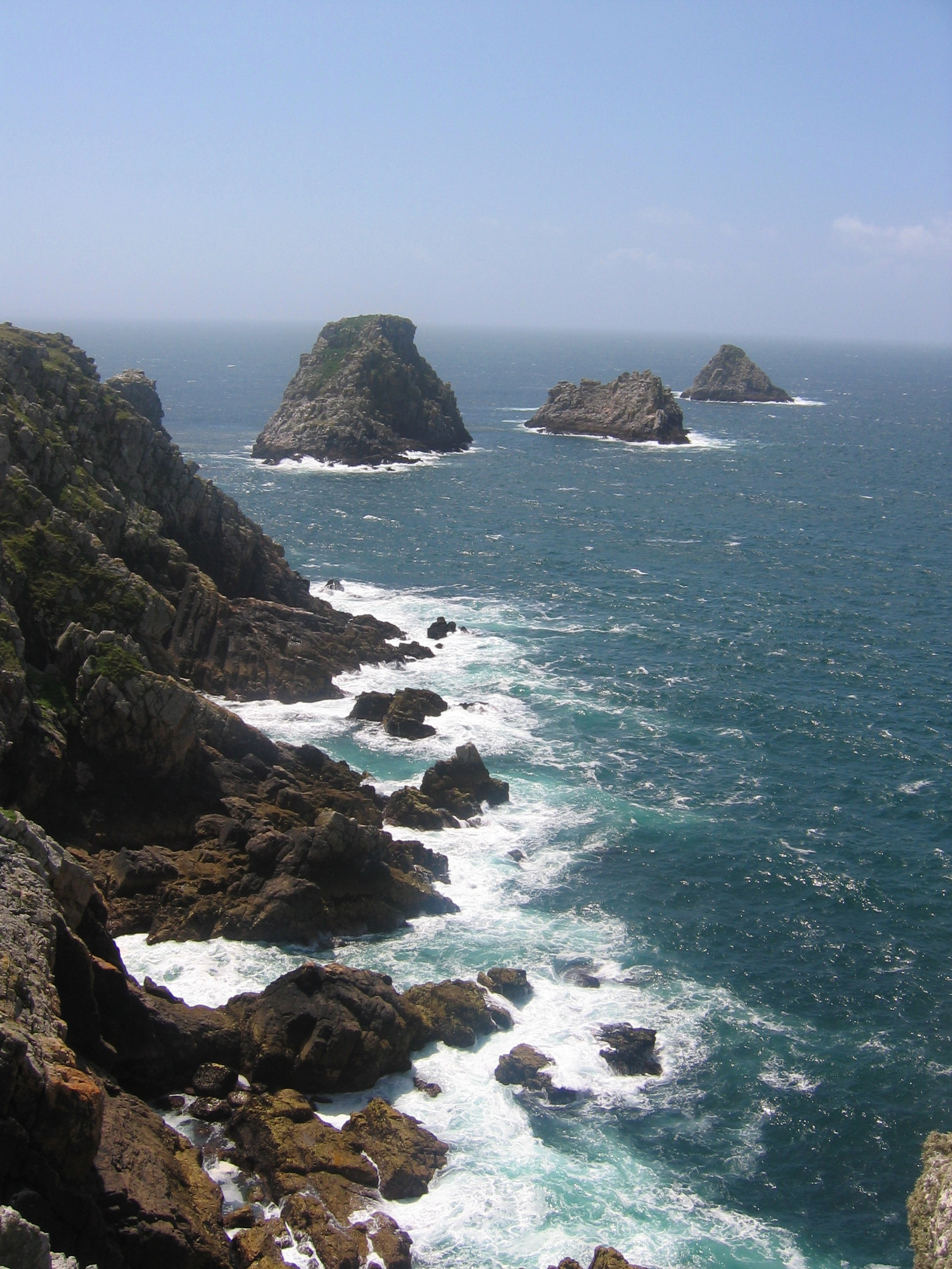 The Tas de Pois (pile of peas) from the Pointe de Penhir at Camaret-sur-Mer